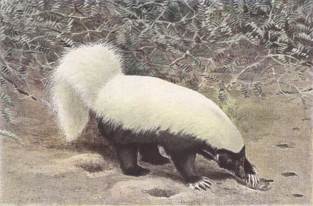 Color illustration of a hog-nosed skunk (Conepatus mesoleucus) by Louis Agassiz Fuertes.